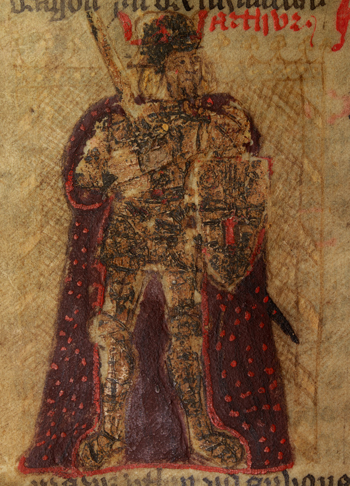 King Arthur. A crude illustration from a 15th century Welsh language version of Geoffrey of Monmouth’s highly influential Historia Regum Britanniae (‘History of the Kings of Britain’)